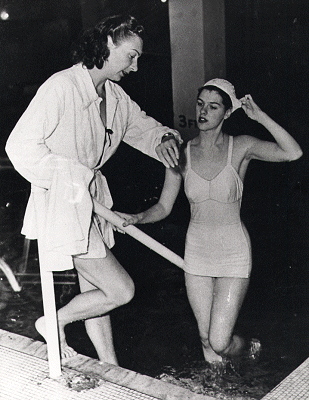 Olympic gold medalist Helene Madison McIver (left) with Marilyn Luper, 1949. Swimmer Helene Madison won three gold medals in freestyle at the 1932 Olympics. Given the source, Flickr tags, and where she lived, the image is certainly in Seattle. Item 31086, Ben Evans Recreation Program Collection (Record Series 5801-02), Seattle Municipal Archives.